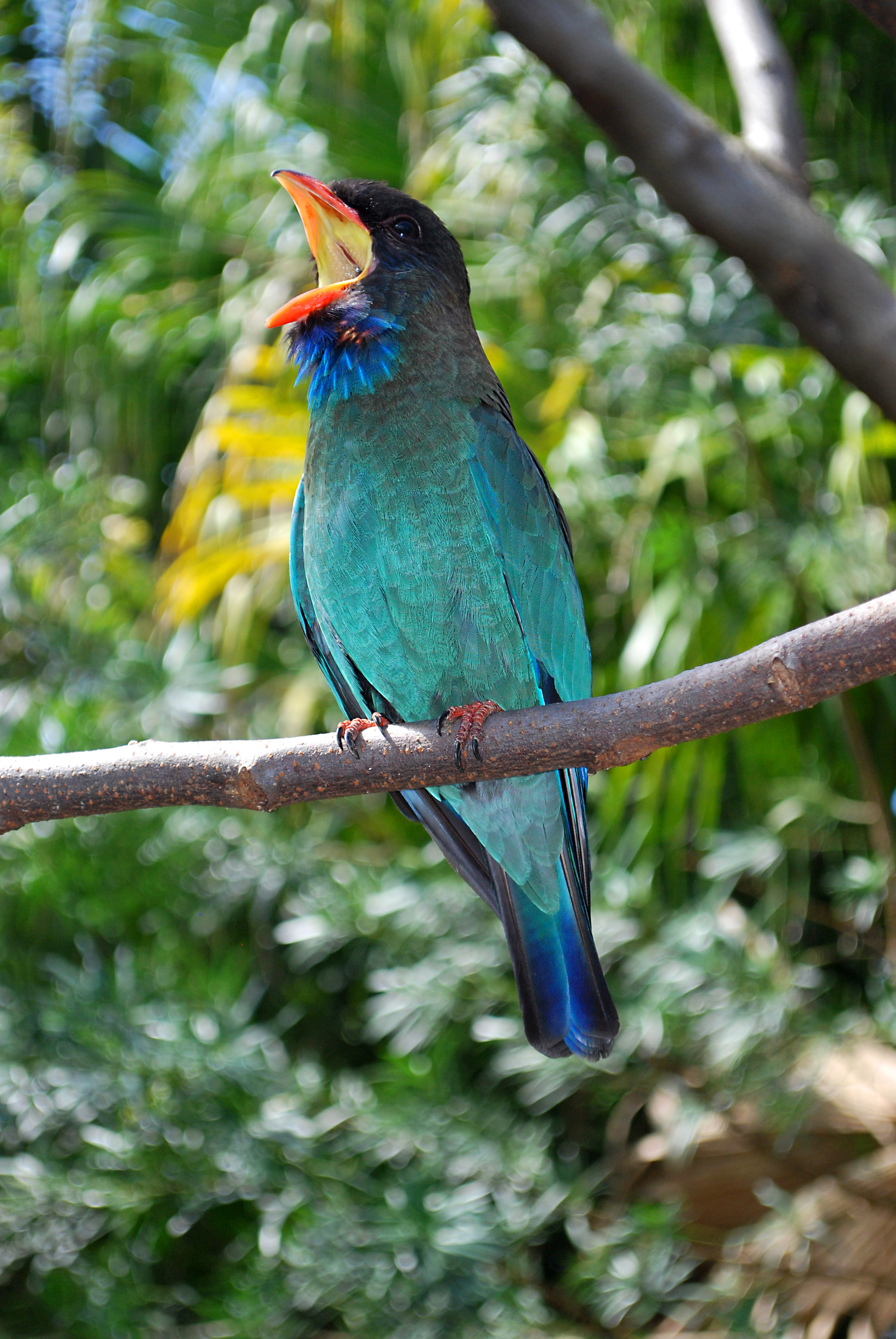 An Oriental Dollarbird (also known as the Dollar Roller) singing at Miami Metrozoo, USA. ISIS list the zoo as having the nominate.